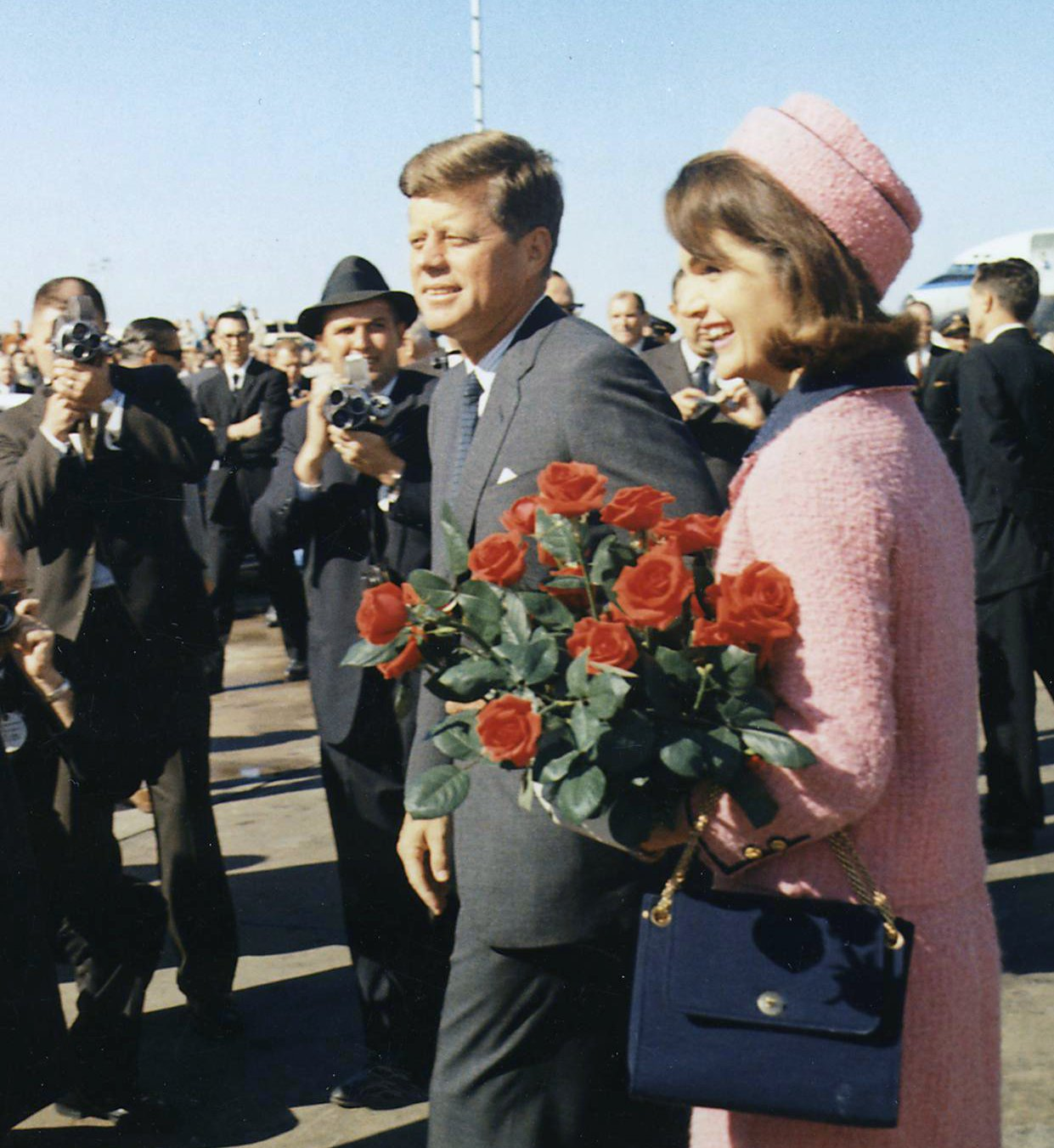 President John F. Kennedy and Jacqueline Kennedy arrive at Love Field, Dallas, Texas. Kennedy was assassinated later in the day.